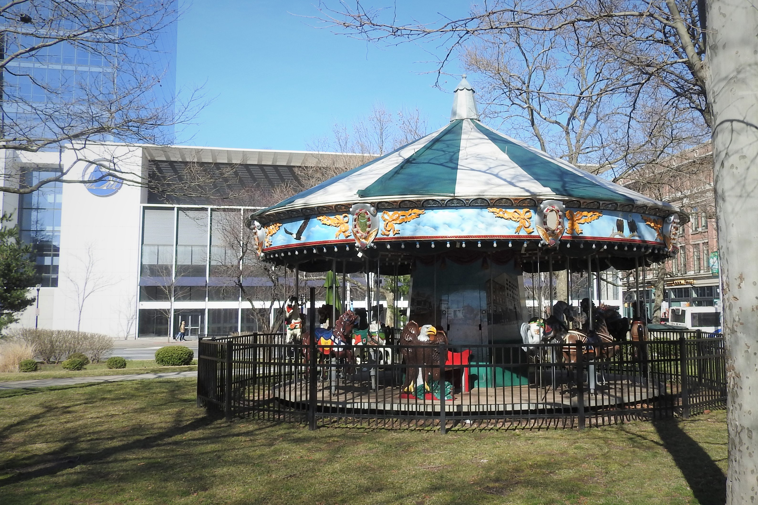 Looking west on a sunny midday